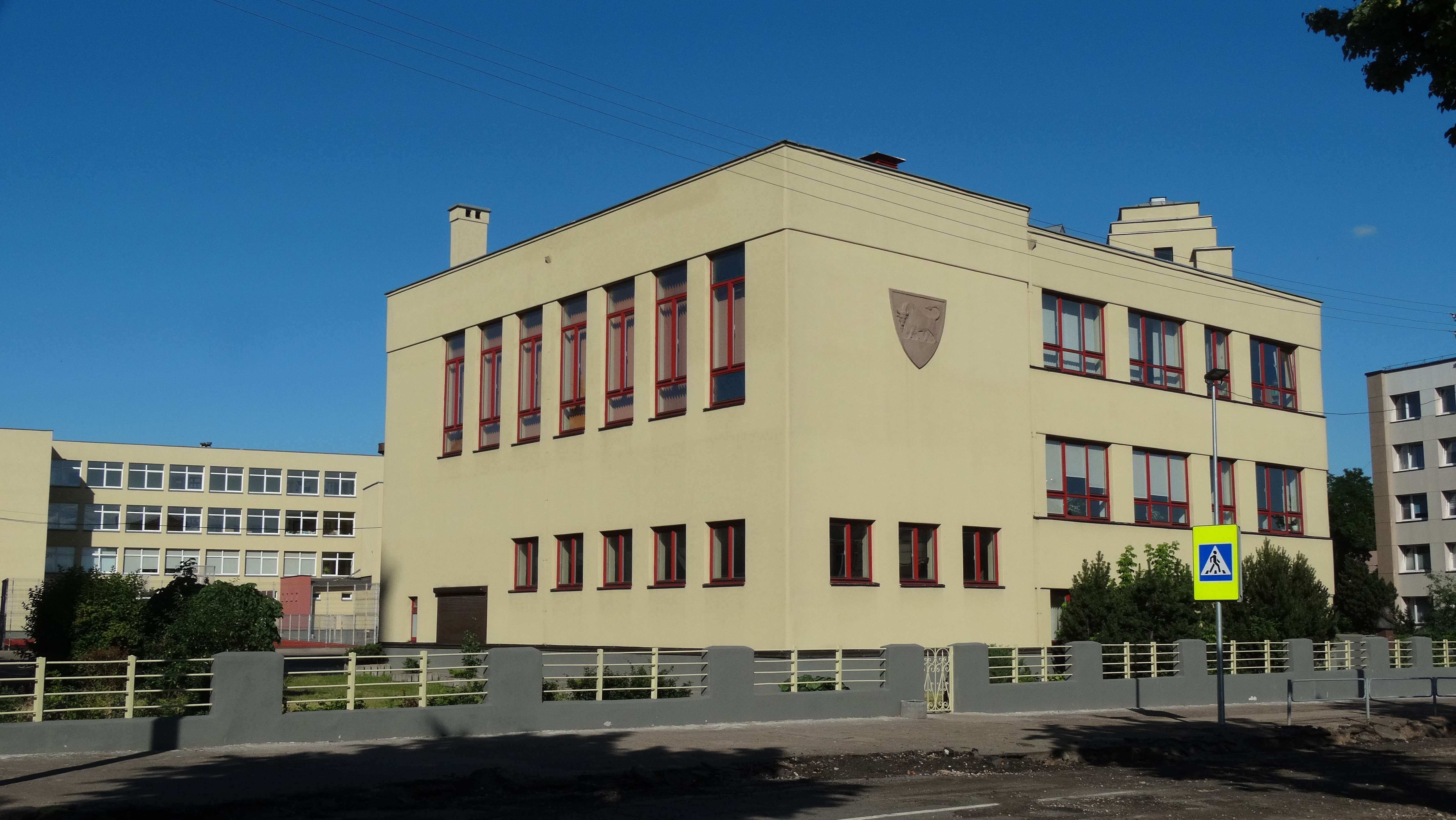 Jonas Jablonskis gymnasium, Kaunas, Lithuania